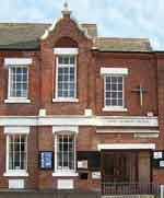 Anstey (Leicester) Methodis Church - Taken by Gordon Tatler.